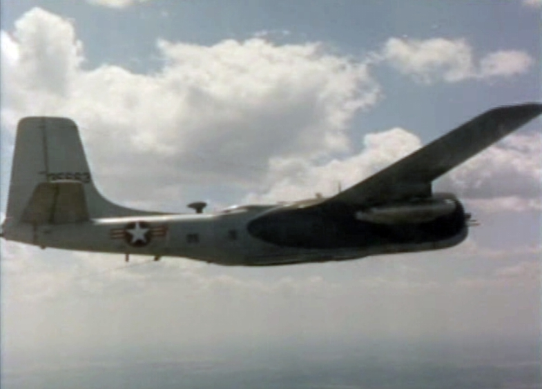 A "Farm Gate" Douglas B-26B bomber (s/n 44-35663) armed with napalm bombs in flight over South Vietnam, in November 1962. These aircraft were flown by USAF crews with Vietnamese markings.